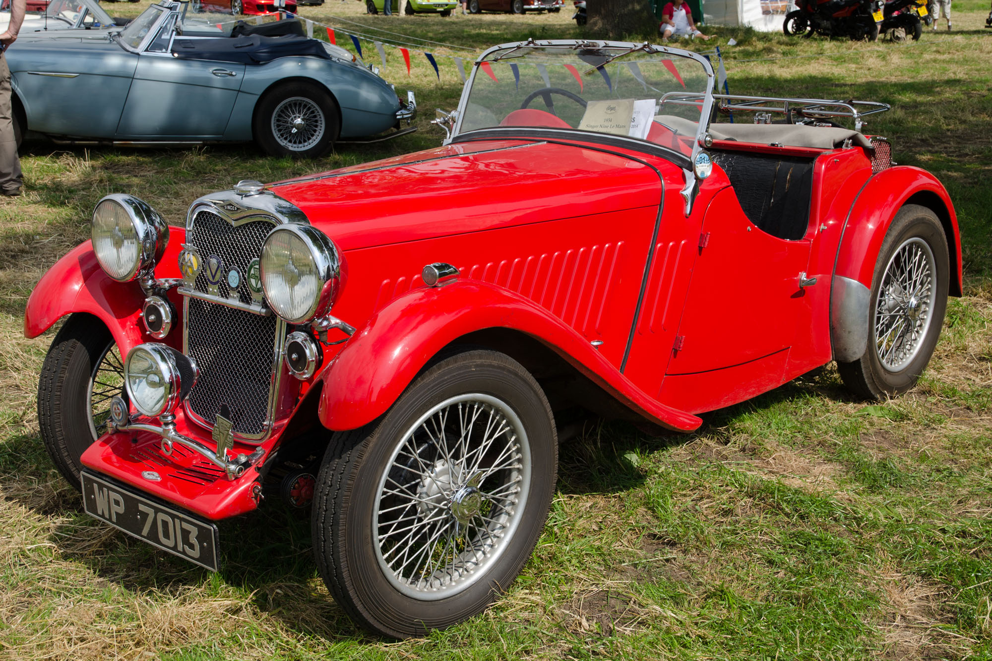 1934 Singer 9 Le Mans Roadster (DVLA) first registered 21 September 1934 Cholmondeley Pageant of Power 14 June 2014